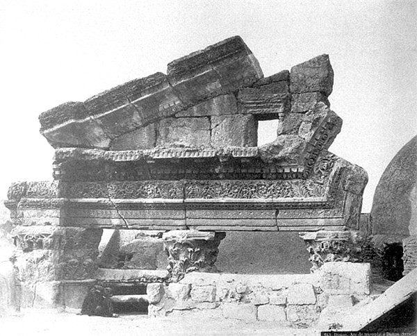 The appearance of the Temple of Jupiter at the western entrance of the Umayyad Mosque, Damascus Syria, Jane Charlir, 1870